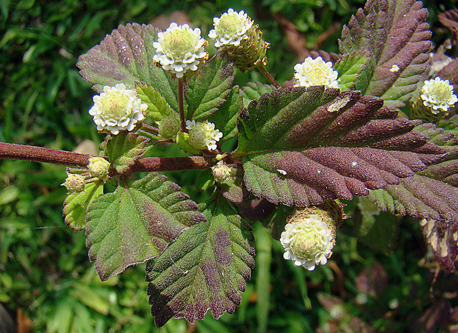 Hierba Dulce is a natural sweetener found in Mesoamerica and the Caribbean. Photo from a garden near San Luis, Costa Rica. In context at